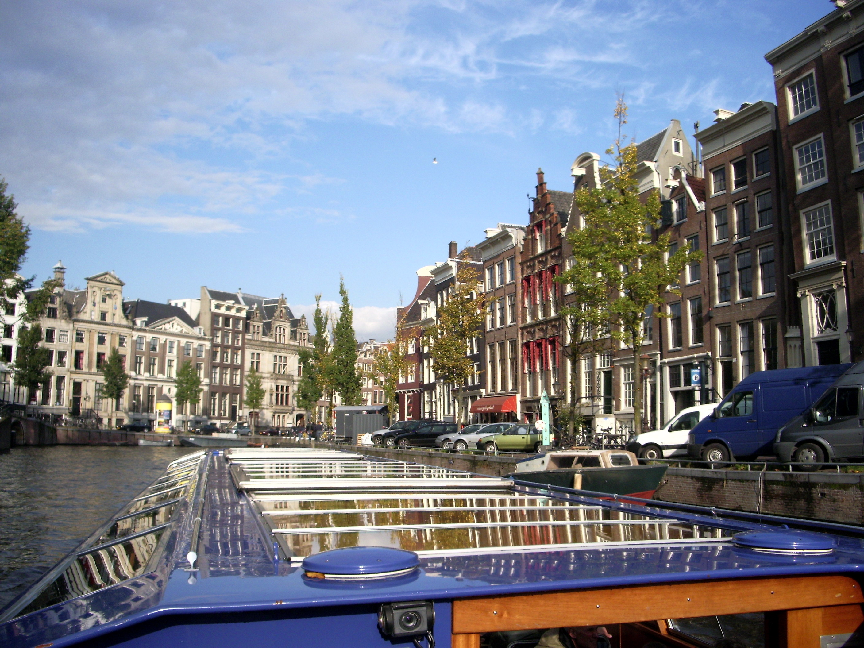 Binnenstad, Amsterdam, Netherlands